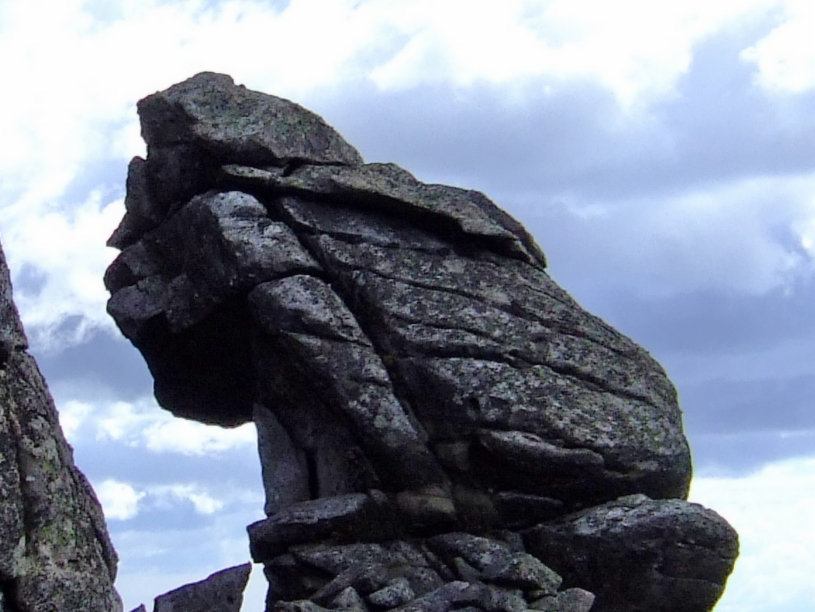 elba island